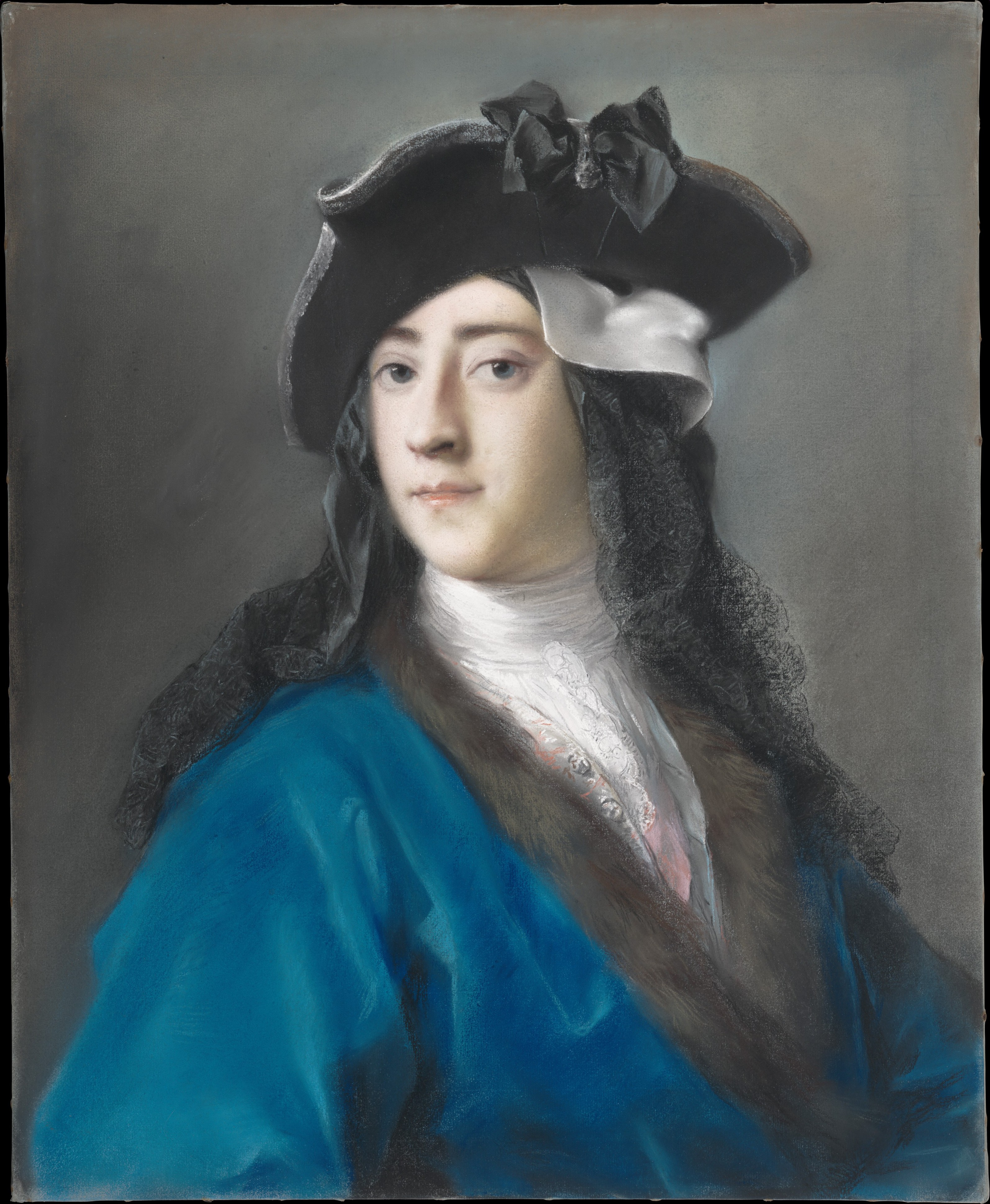 Gustavus Hamilton (1710–1746), who was Irish, succeeded in 1723 as Viscount Boyne. He and Edward Walpole, the second son of the powerful Whig prime minister Sir Robert Walpole, were in Venice from January to March 1730, enjoying the pleasures of the Carnival season, and Boyne was there again the following winter. There are three versions of the present portrait: the second (private collection) shows the sitter in an identical costume; in the third (Barber Institute of Fine Arts, University of Birmingham, England) he wears a brown brocaded coat. The hat, veil, and mask, worn outdoors with a black coat, is known to Venetians as the bautta and offered its wearer the advantage of anonymity.